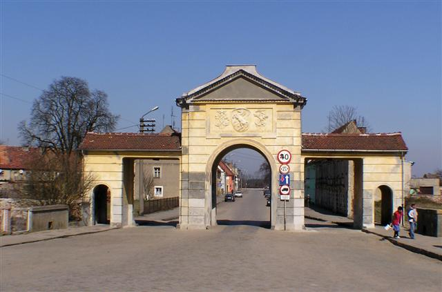 The city gate of Brody (powiat żarski)